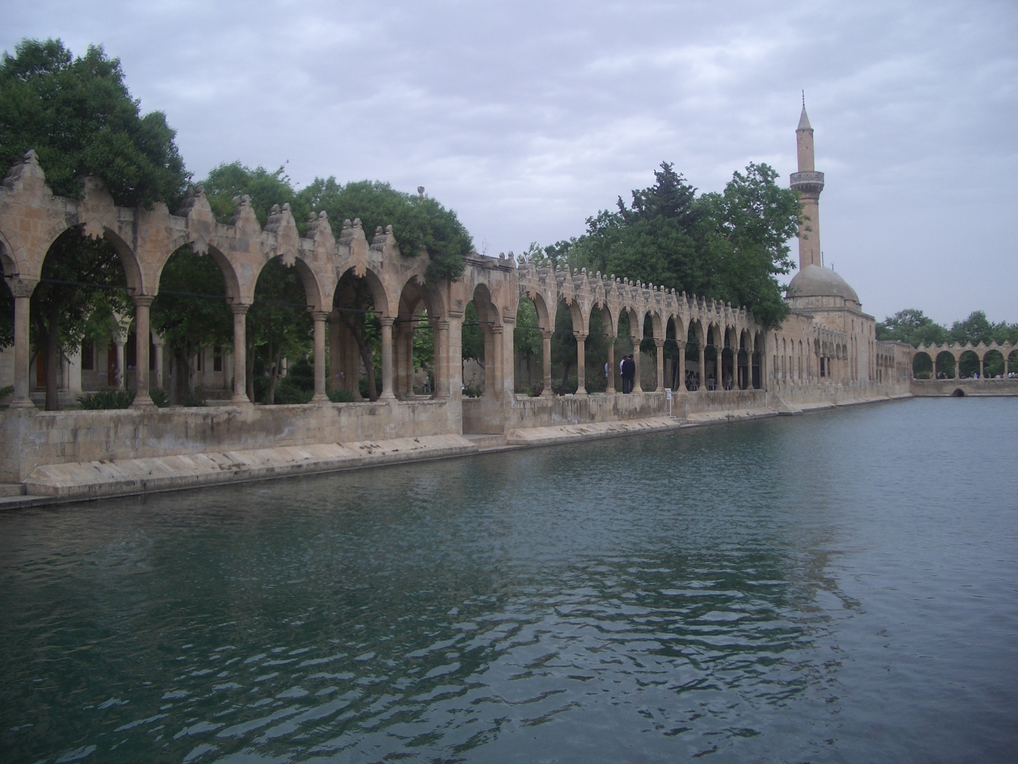 24, The holy pond (Balıklıgöl) in old city of Urfa, Turkey Location: Sanliurfa (city)